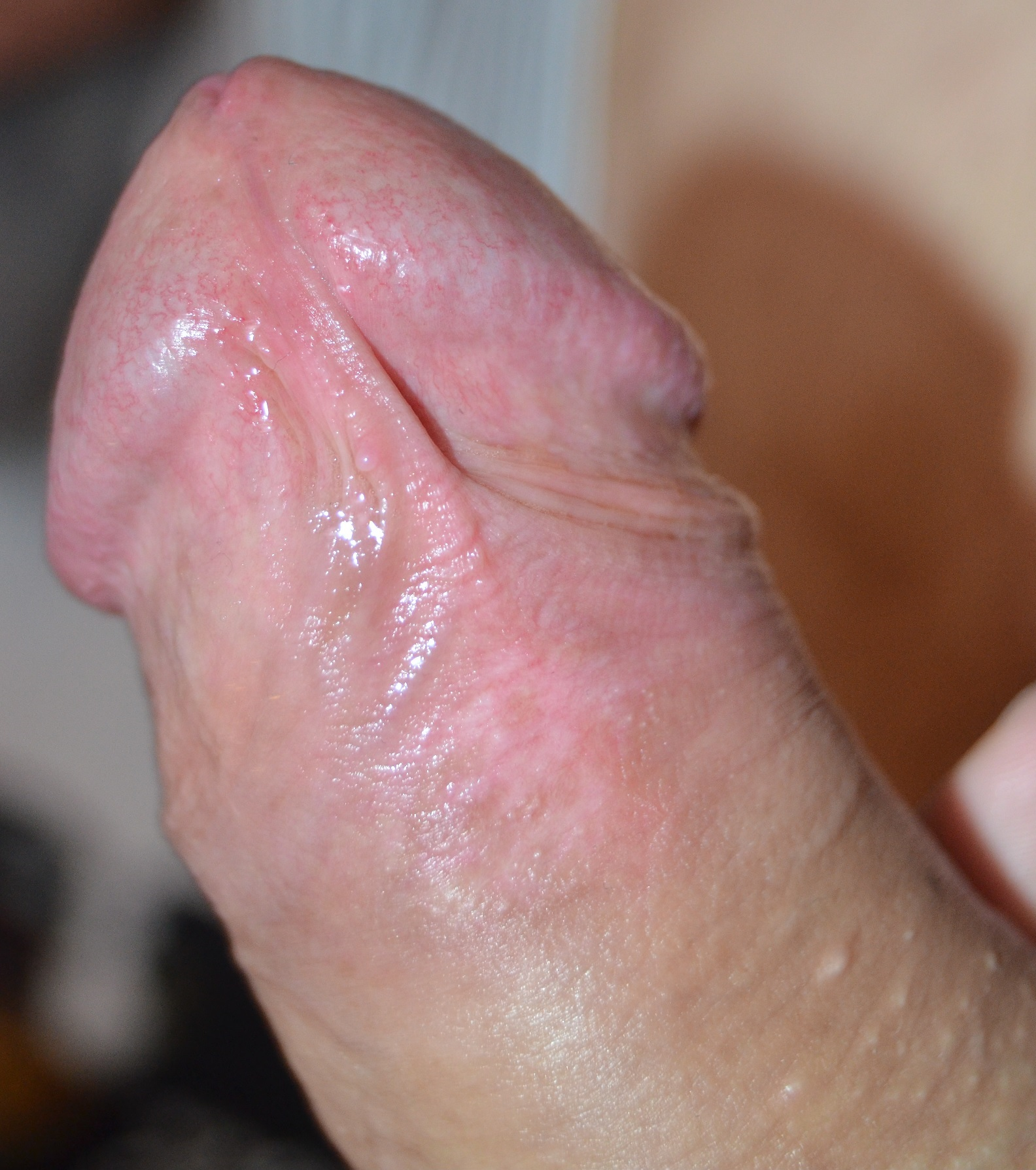 frenulum and the corona on glans penis